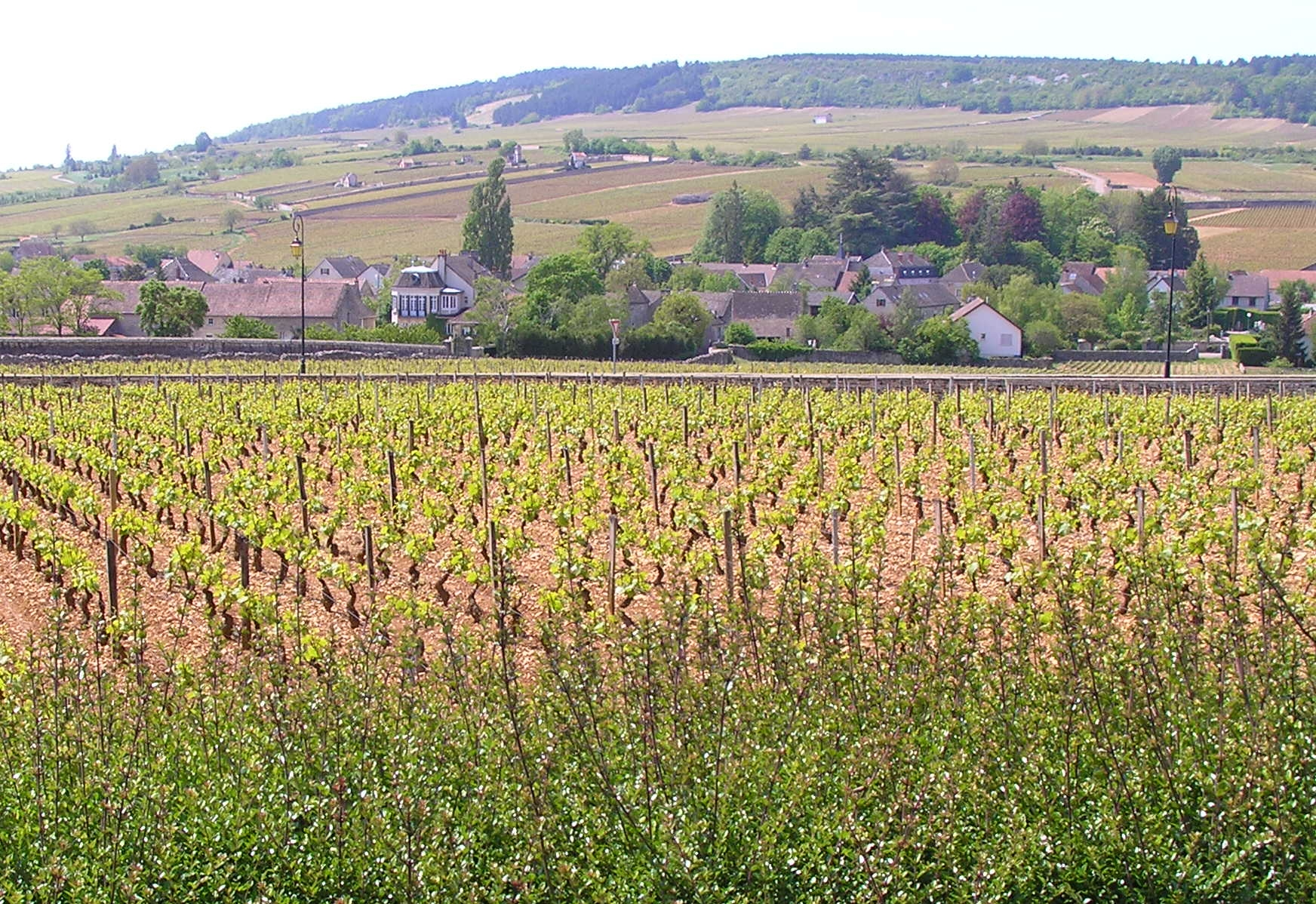 The town of Meursault, on the Côte de Beaune, May 2005. Photo by Gavin Sherry.